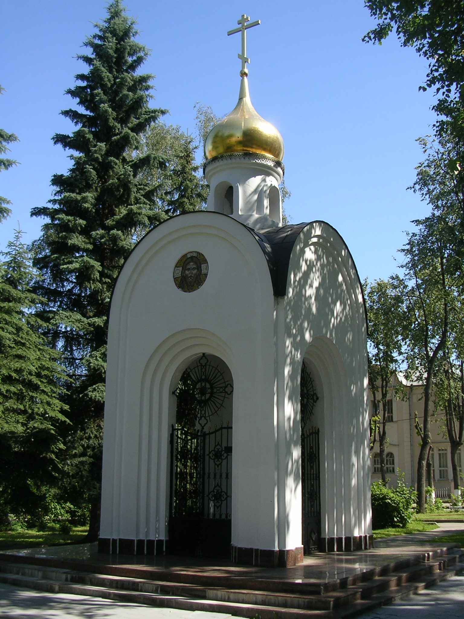 Chapel in the name of died in World War II at Victory square in Noginsk.